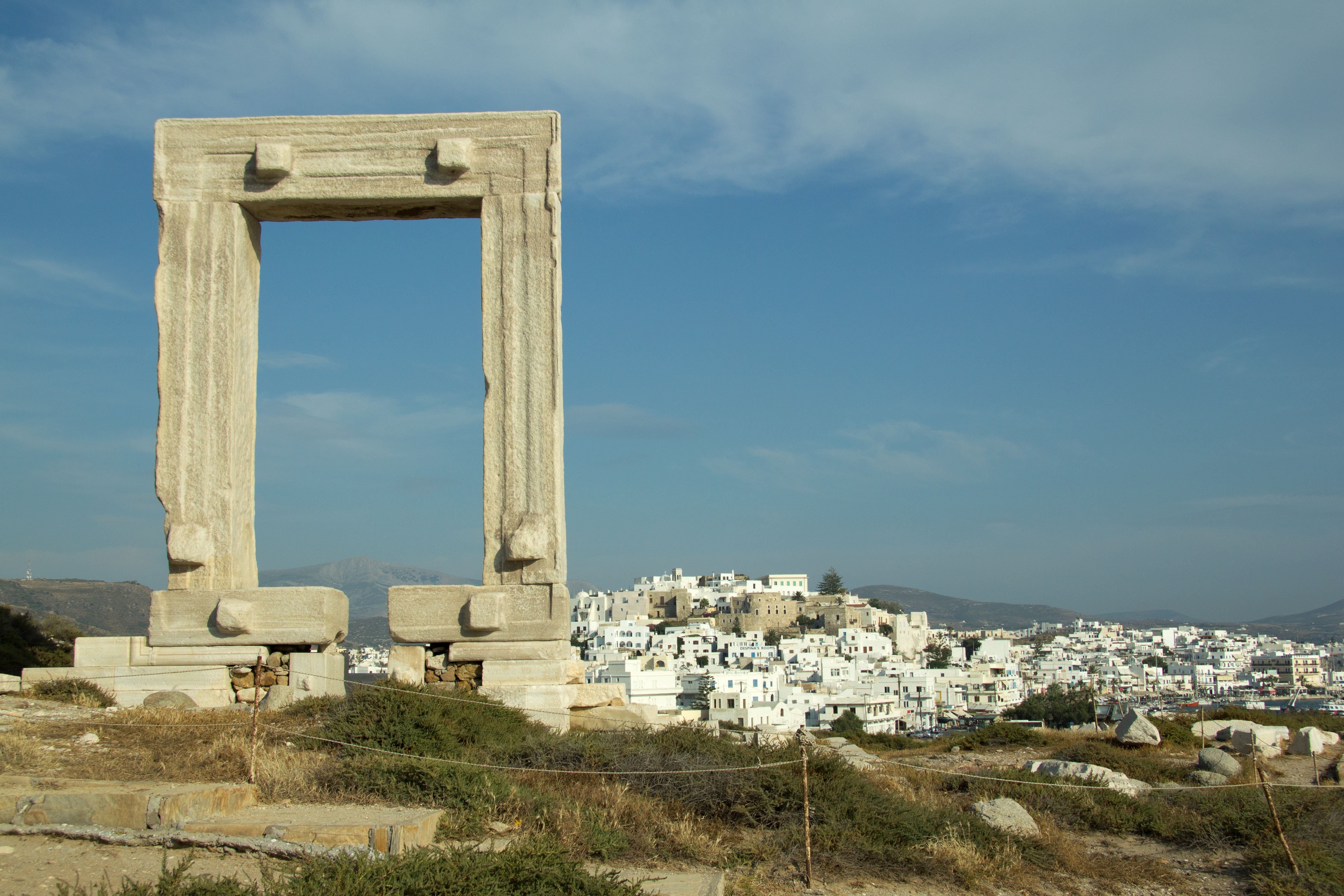 The entrance gate of the Temple of Apollo on islet Palatia, near Naxos Town, of year 530 BC. "Apollo come from Delos to Naxos."